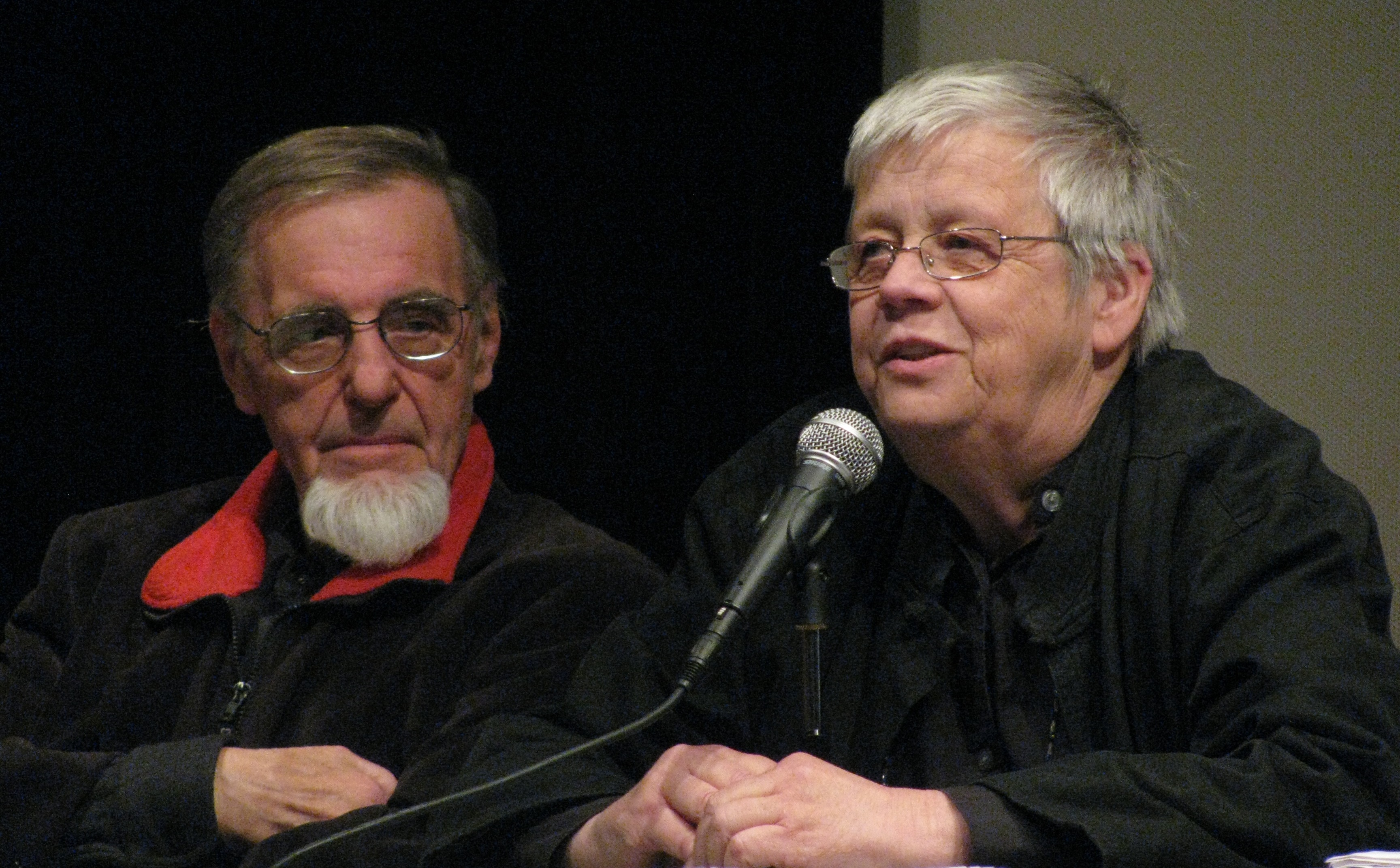 Steina and Woody Vasulka, at the Celebration of the 35th Anniversary of the Founding of Media Study (University at Buffalo)